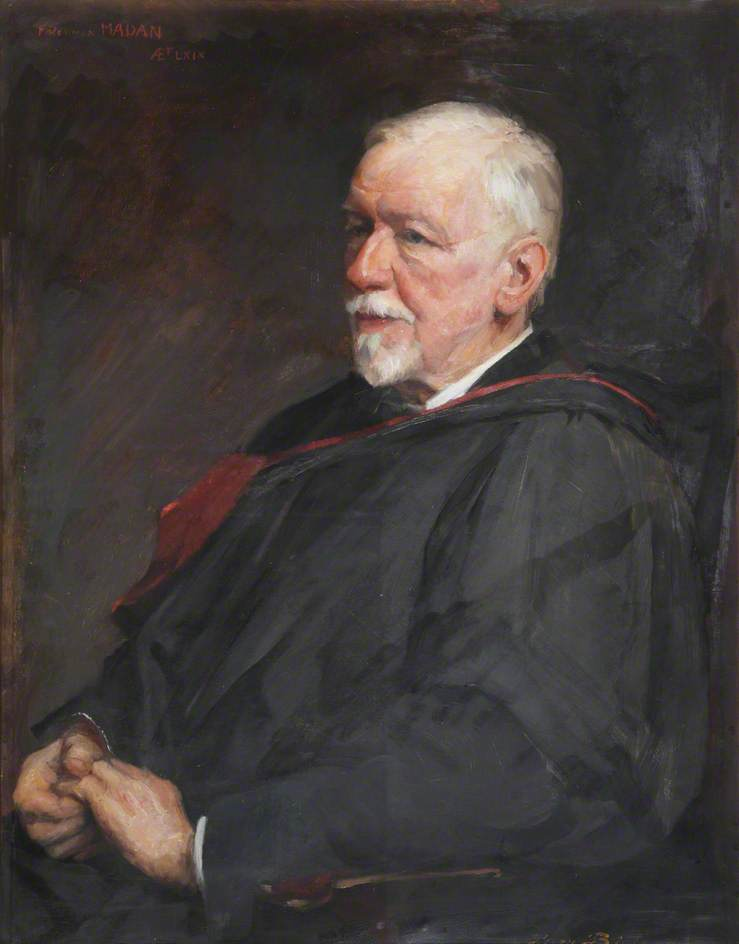 Portrait of Falconer Madan (1851—1935), British librarian.